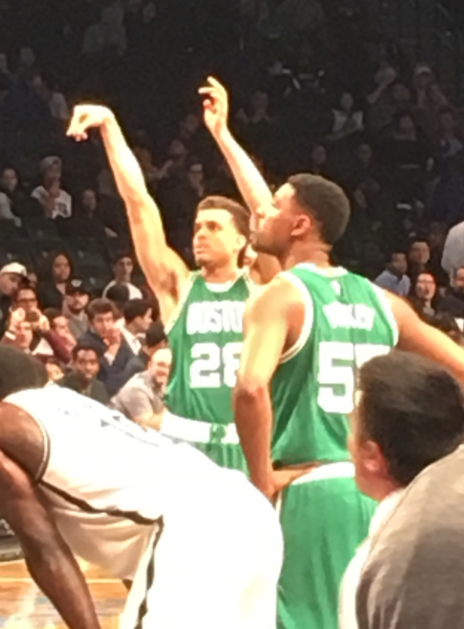 Boston Celtics swingman RJ Hunter shoots a free throw with teammate Jordan Mickey looking on at the Barclays Center on October 13, 2016